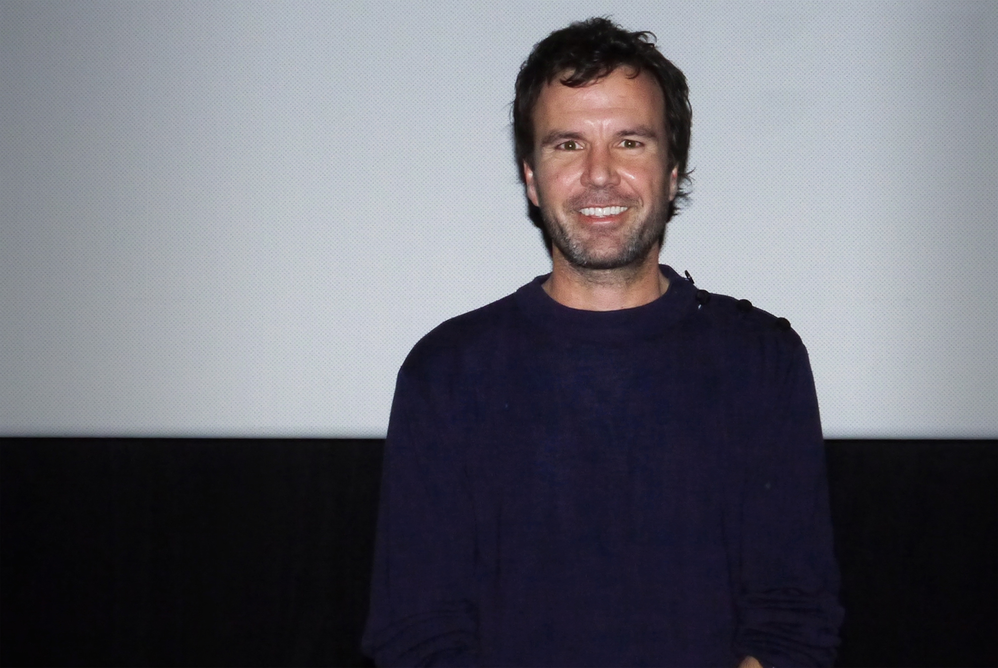 Director Emmet Malloy at a screening of his documentary Big Easy Express in Mexico City. Picture by Karen Aguilera / Ambulante Festival.